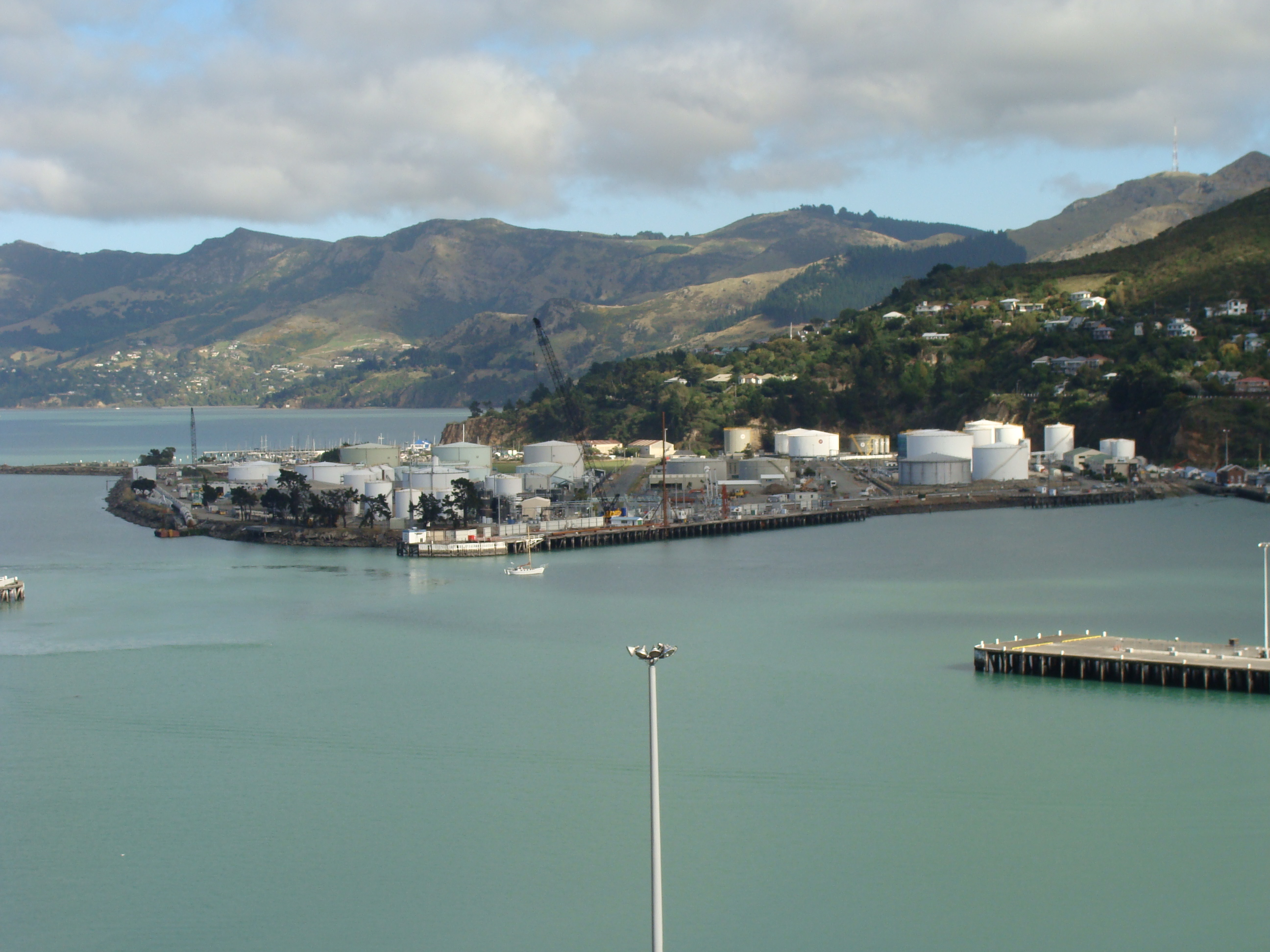 Looking across Lyttelton Port towards the oil terminal at Cyrus Williams Quay.